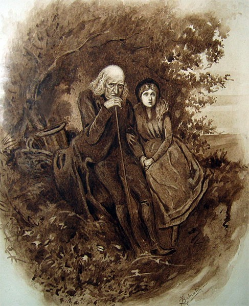 Little Nell and Her Grandfather - Charles Dickens